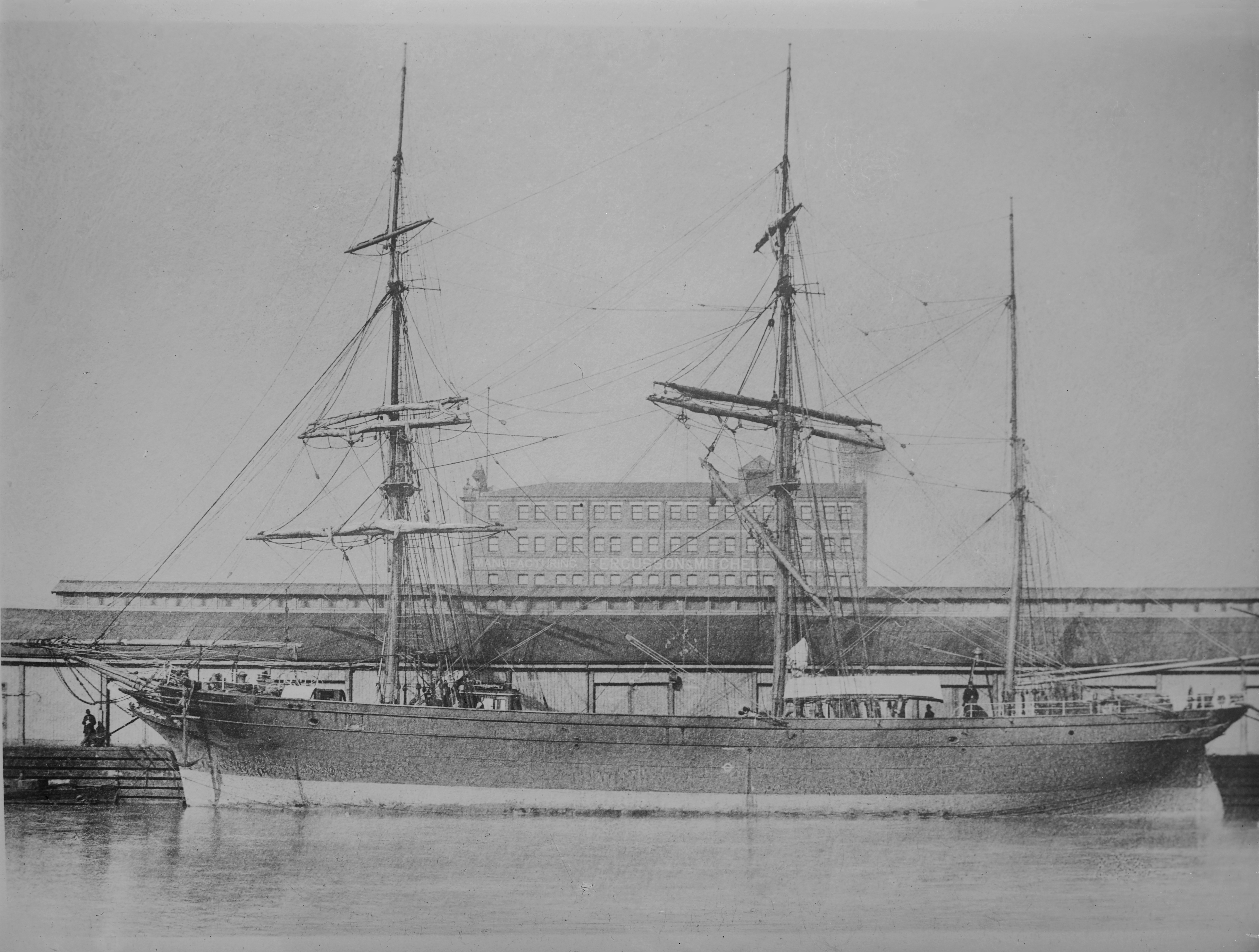 Original caption: “OTAGO.”